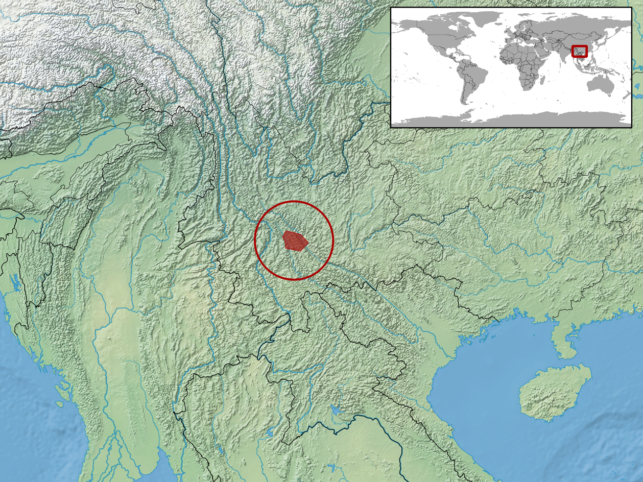 geographic distribution of Calamaria yunnanensis (Native: China (Yunnan))